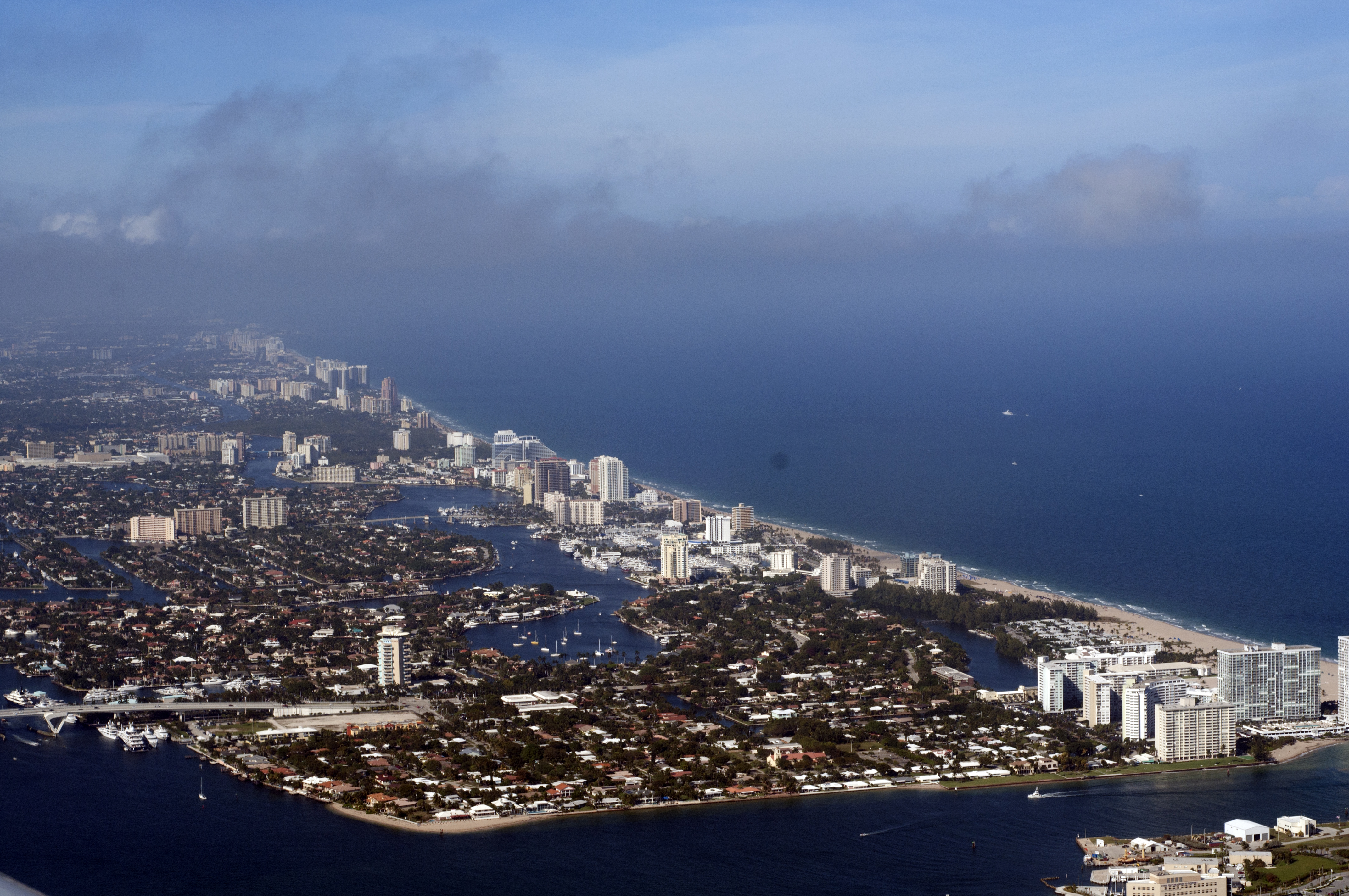 Fort Lauderdale Florida Photo D Ramey Logan publish photographer credit if used outside o Wikipedia